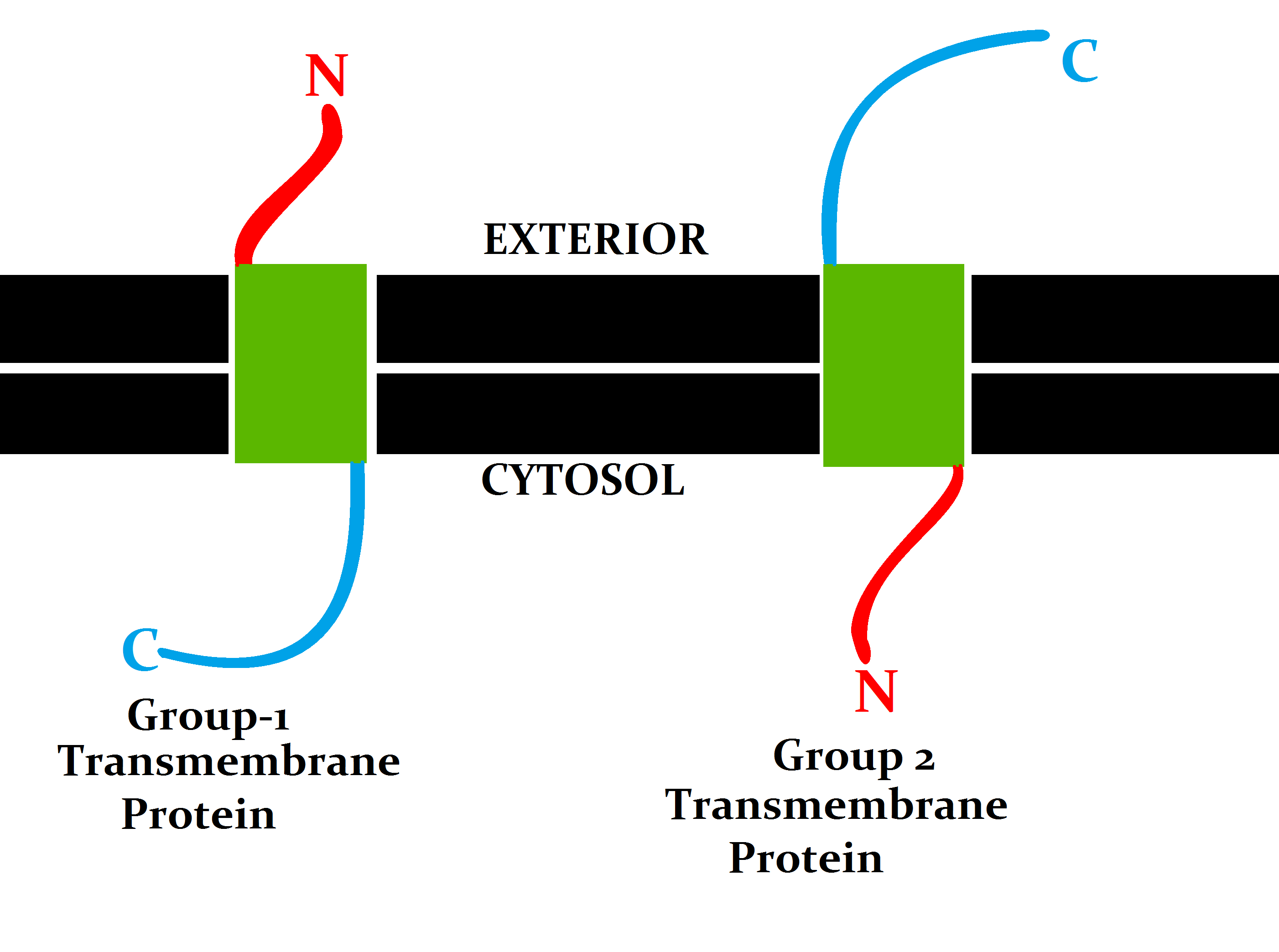 Group I and II transmembrane proteins have opposite orientations. Group I proteins have the N terminus on the far side and C terminus on the cytosolic side. Group II proteins have the C terminus on the far side and N terminus in the cytosol. Adapted from Genes IX by Benjamin Lewin.